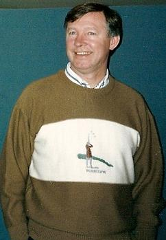 Alex Ferguson, manager of Manchester United, in march 1992.